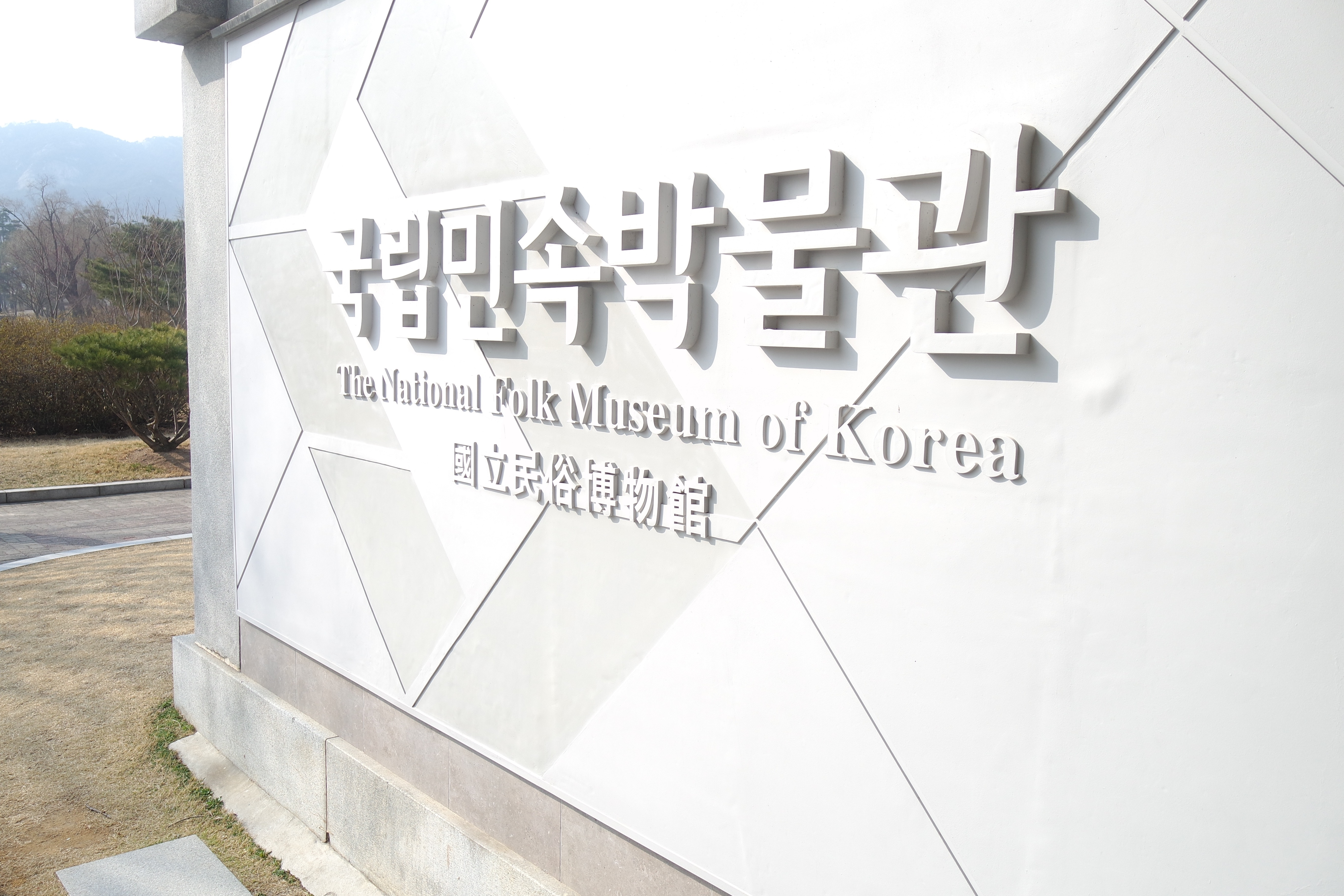 Entrance Sign